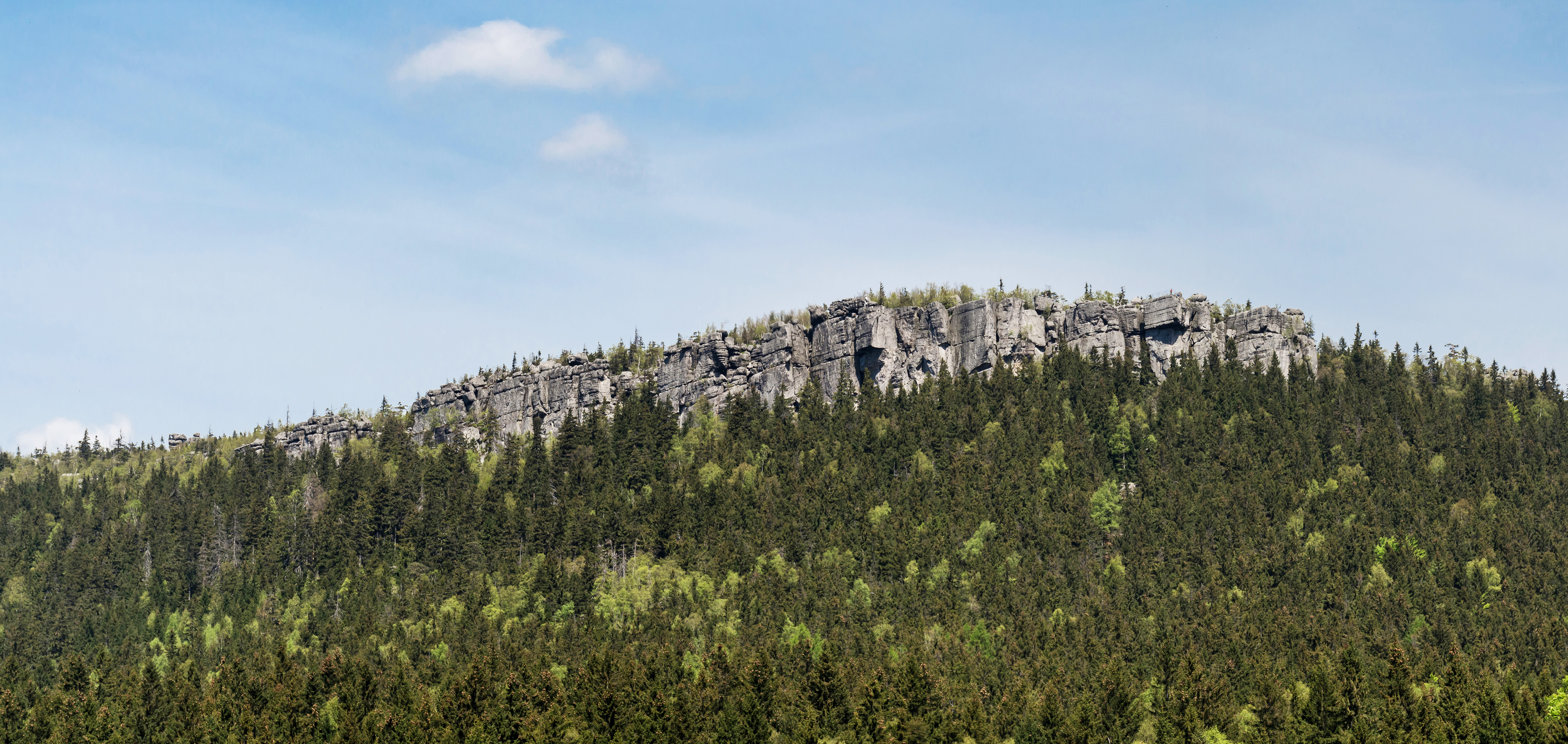 Hilltop of the Szczeliniec Wielki, Stołowe Mountains, Sudetes, Poland This is a photography of Natura 2000 protected area with ID PLH020004